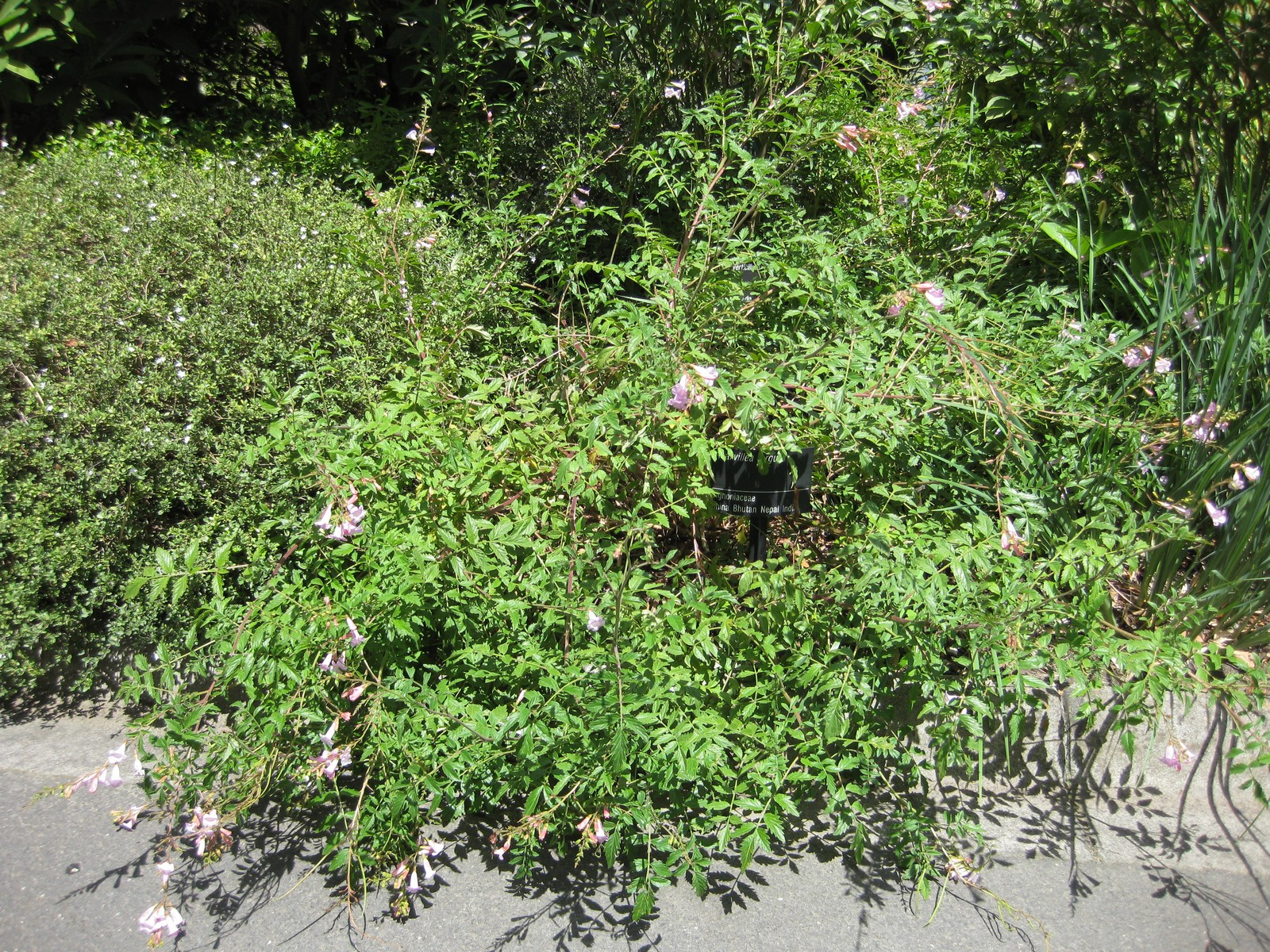 Photographed at the Royal Botanic Gardens Melbourne (Australia) in December